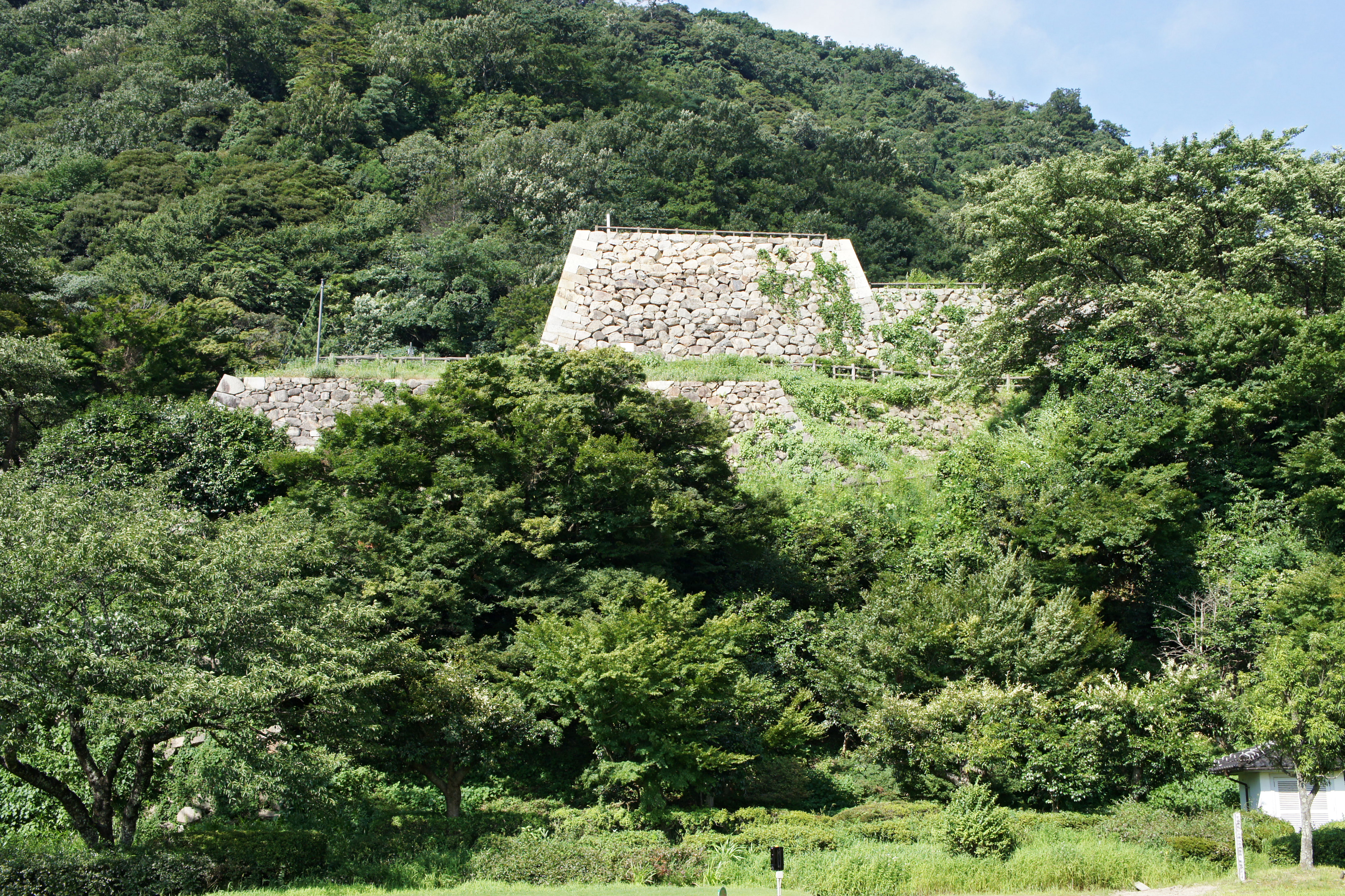 Tottori Castle in Tottori, Tottori prefecture, Japan